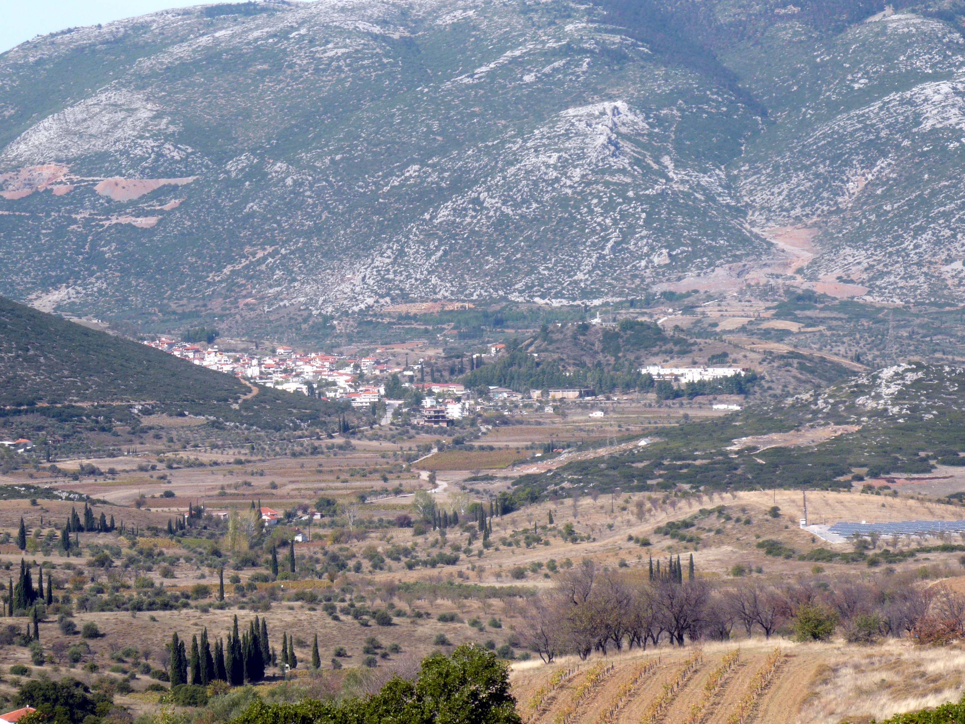 Distomo viotias